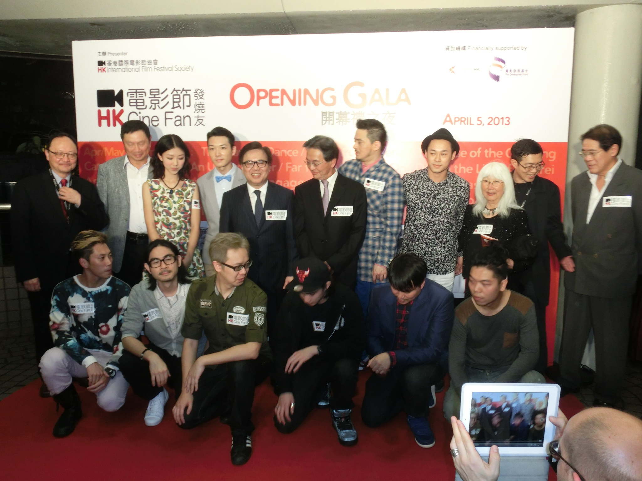 VIP group gethering photogrpahy of 香港電影節發燒友 HKIFF Cine Fan, HKIFF Cine Fan Programme, Opening Gala night at Hong Kong Arts Centre, Wan Chai, Hong Kong in 5th April 2013 嘉賓大合照，前排左起：《狂舞派》舞蹈編排zh:麥秋成、導演zh:黃修平、監製zh:陳心遙、演員zh:楊樂文(Lokman)、配樂zh:戴偉、阿佛；後排左起：香港國際電影節協會總監zh:高思雅、董事zh:張建東太平紳士、《狂舞派》演員zh:顏卓靈、蔡瀚億(Babyjohn)、香港國際電影節協會主席zh:王英偉太平紳士、董事zh:蘇澤光太平紳士、「電影節發燒友」大使黃耀明、《狂舞派》演員Tommy Guns、《給馬爾卡：沒寄出的信》導演愛美高奧摩莉、香港國際電影節協會藝術總監zh:李焯桃及董事zh:黃家倫。 Front row, from left: The Way We Dance’s choreographer Shing MAK, director Adam WONG, producer Saville CHAN, cast member Lokman, composers Day TAI and Fuc; 2nd row, from left: HKIFFS Executive Director Roger GARCIA, HKIFFS Board Member Dr. the Honourable Marvin CHEUNG, The Way We Dance’s cast members Cherry NGAN, Babyjohn, HKIFFS Chairman Wilfred WONG, HKIFFS Board Member Jack SO, HKIFF Cine Fan Ambassador Anthony WONG, The Way We Dance’s cast member Tommy Guns, To Chris Marker: An Unsent Letter’s director Emiko OMORI, HKIFFS Artistic Director LI Cheuk-to and HKIFFS Board Member Alan Wong.